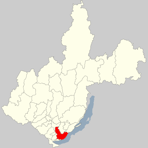 Map of Irkutsk Oblast and Ust-Orda Buryat Okrug, Russian Federation.